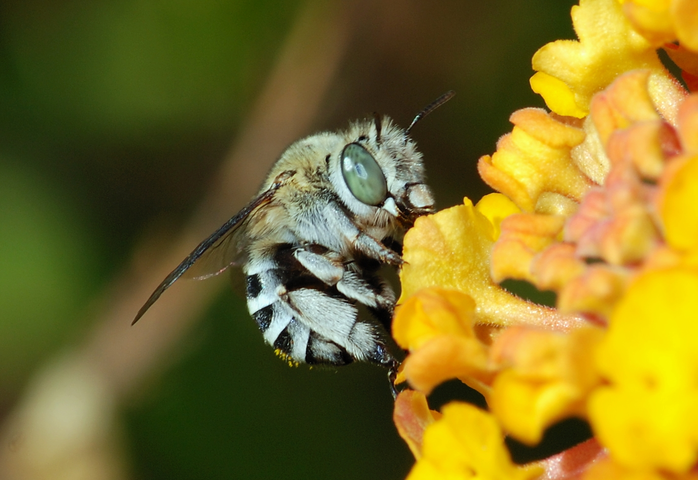 A Blue-banded bee (Amegilla sp.) collecting nectar from a Lantana camara flower.